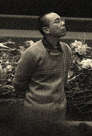 Thai independent film director, screenwriter, and film producer Apichatpong Weerasethakul at the Fribourg International Film Festival (Switzerland).